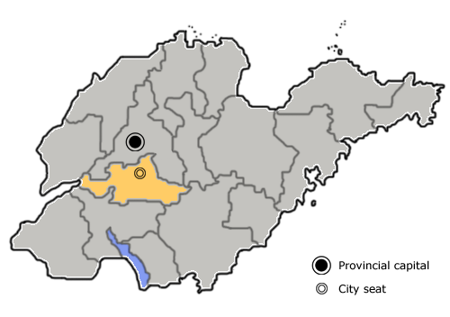 The prefecture-level city of Tai'an is highlighted on this map of Shandong province, People's Republic of China.